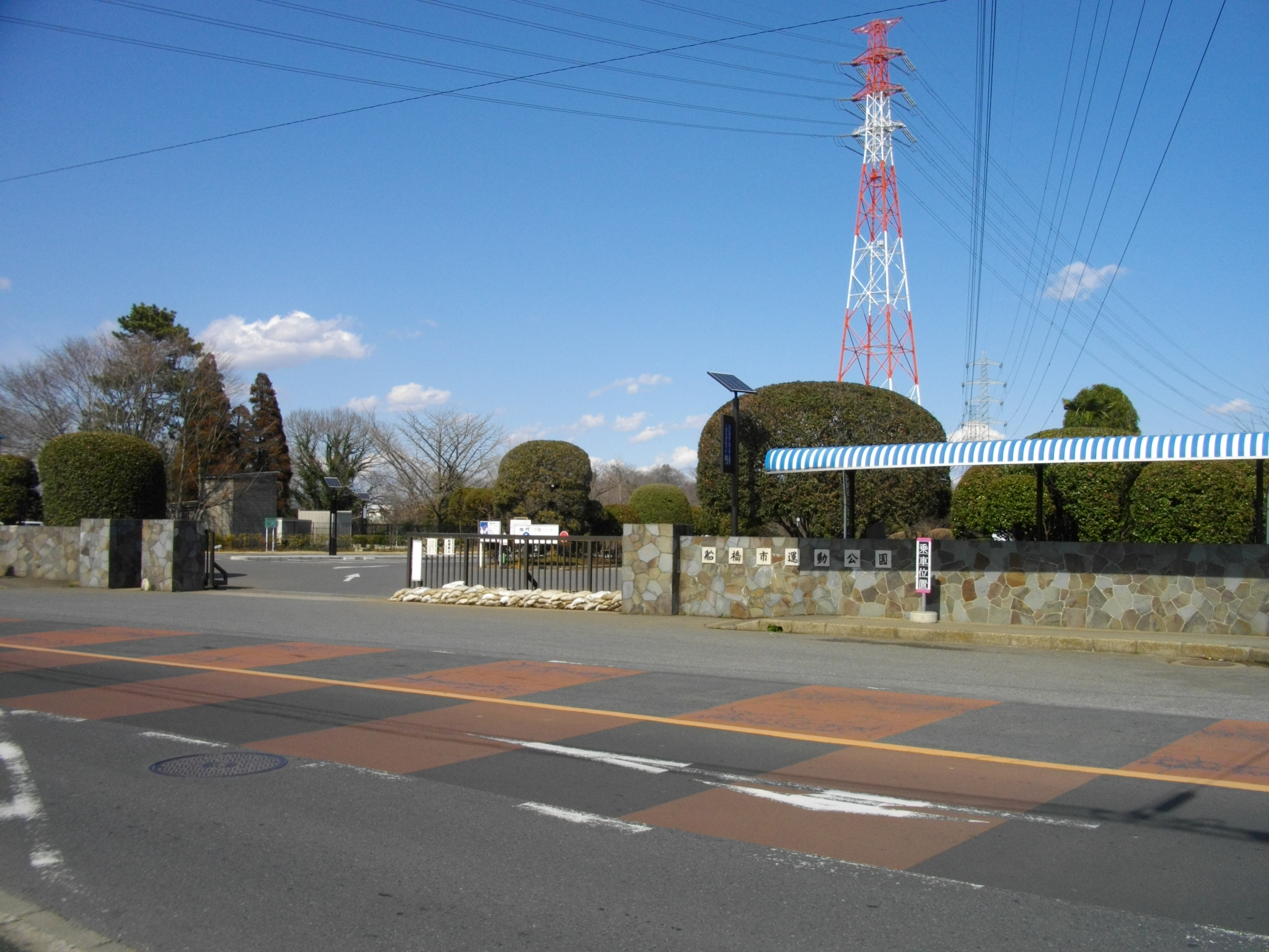 Funabashi City Undo Koen